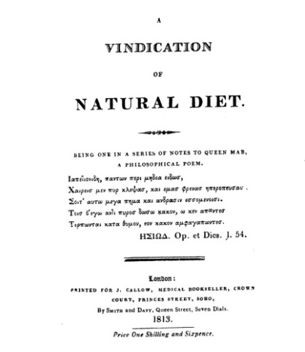 1813 title page of A Vindication of Natural Diet Captioned As A Vindication of Natural Diet 1813 title page, printed for J. Callow by Smith & Davy, London.